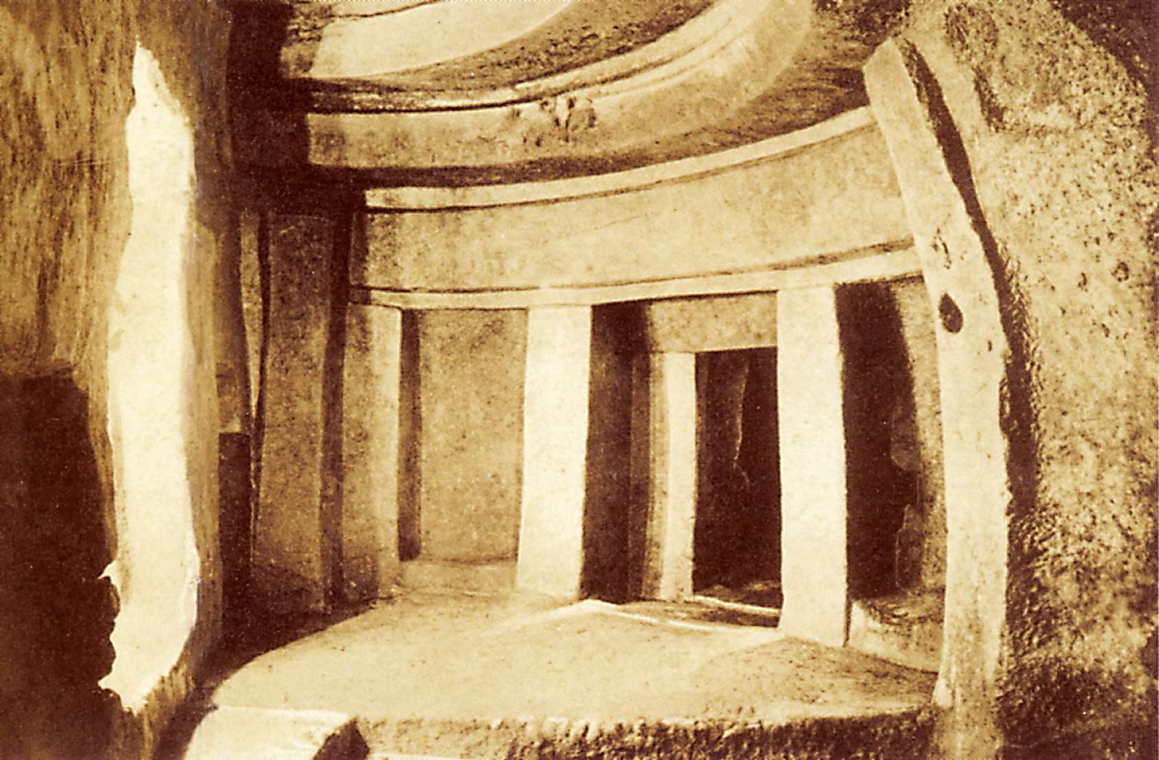 Photograph of the Hypogeum of Ħal-Saflieni made before 1910.